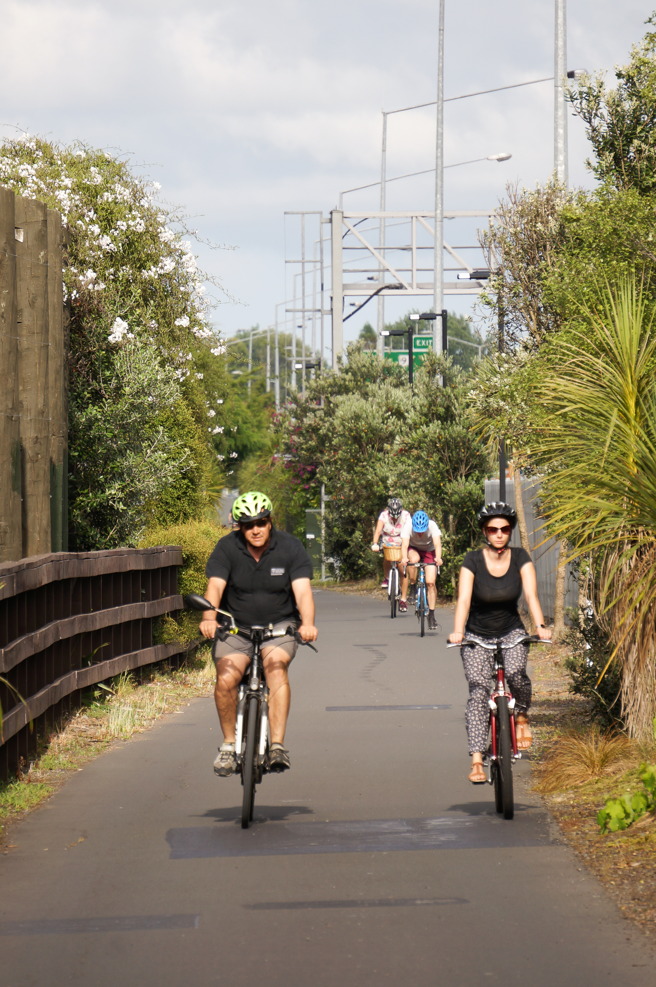 Morning commuters on the Kingsland stretch of the Northwestern Cycleway